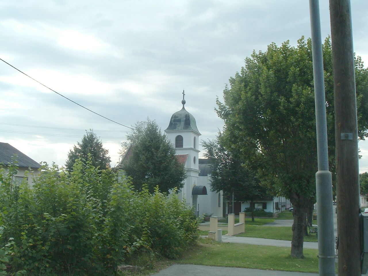 Welgersdorf (Velege)